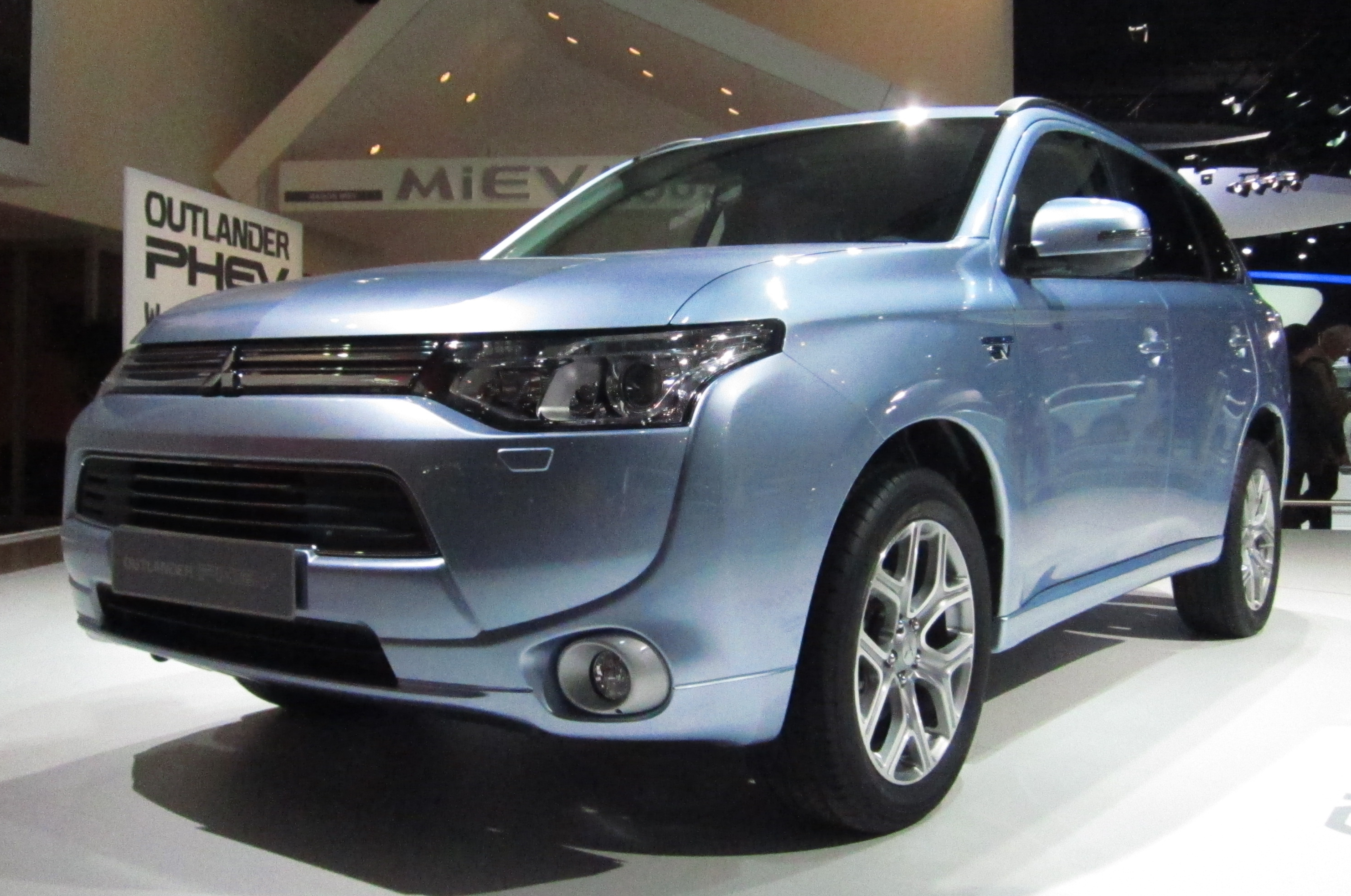 Mitsubishi Outlander PHEV (Plug-in Hybrid) at Mondial de l'Automobile Paris 2012